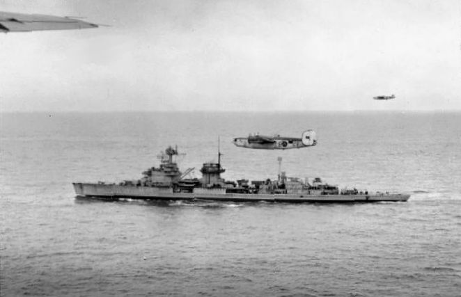 The German light cruiser Nürnberg sailing from Copenhagen, Denmark, to Wilhelmshaven, Germany, under the terms of surrender, escorted by two Consolidated Liberators of No. 547 Squadron RAF.